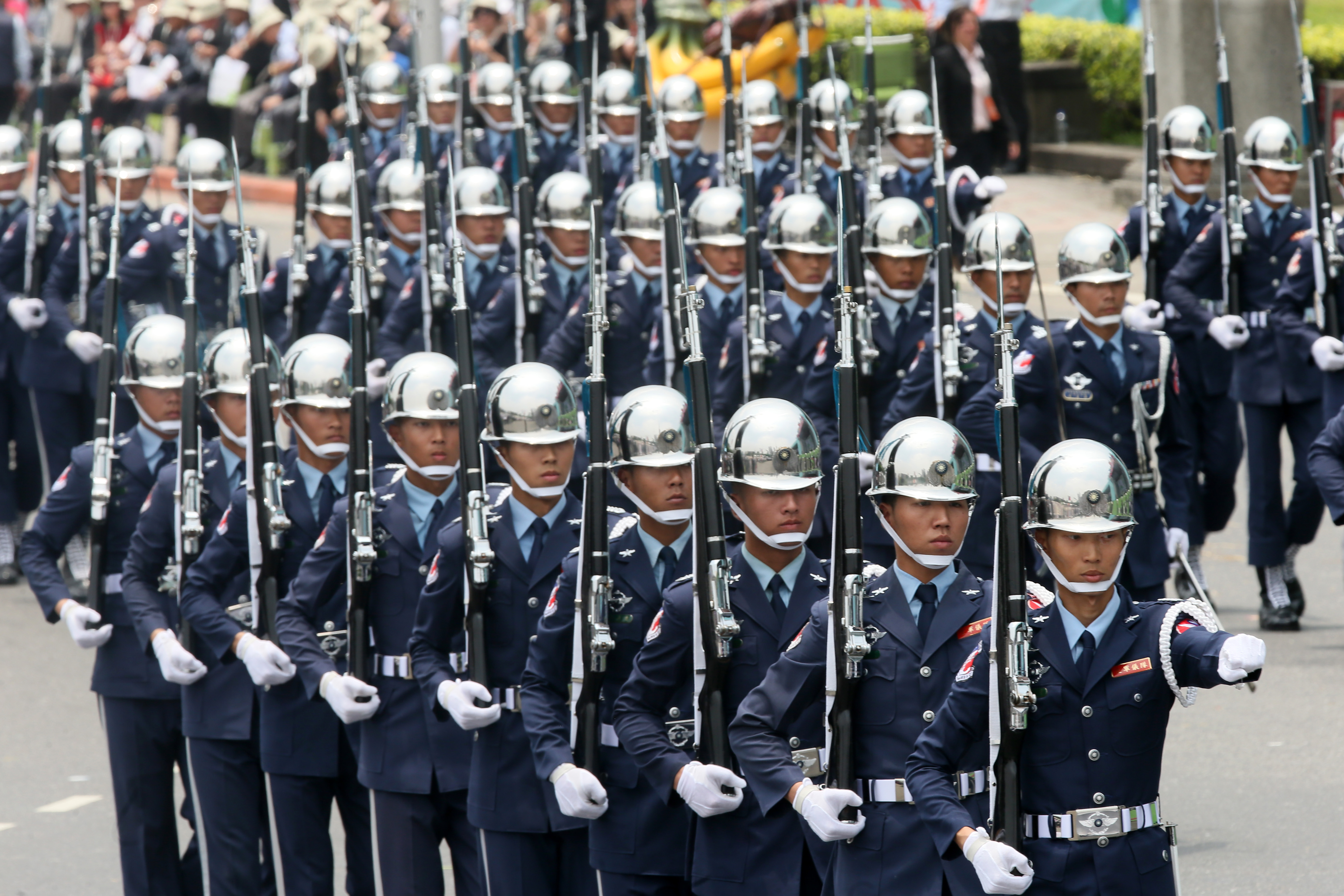 Inaugural ceremony activities for 14th-term President Tsai Ing-wen and Vice President Chen Chien-jen.